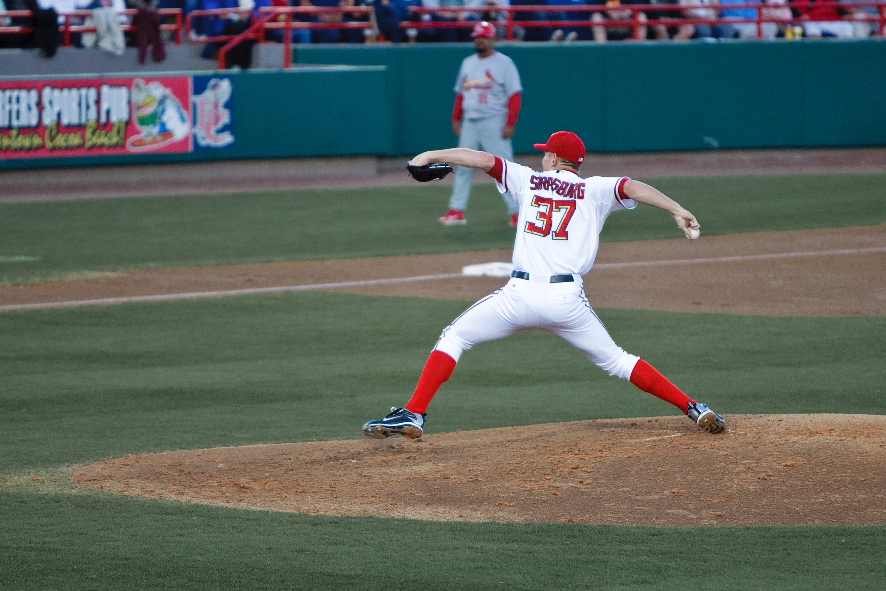 Stephen Strasburg